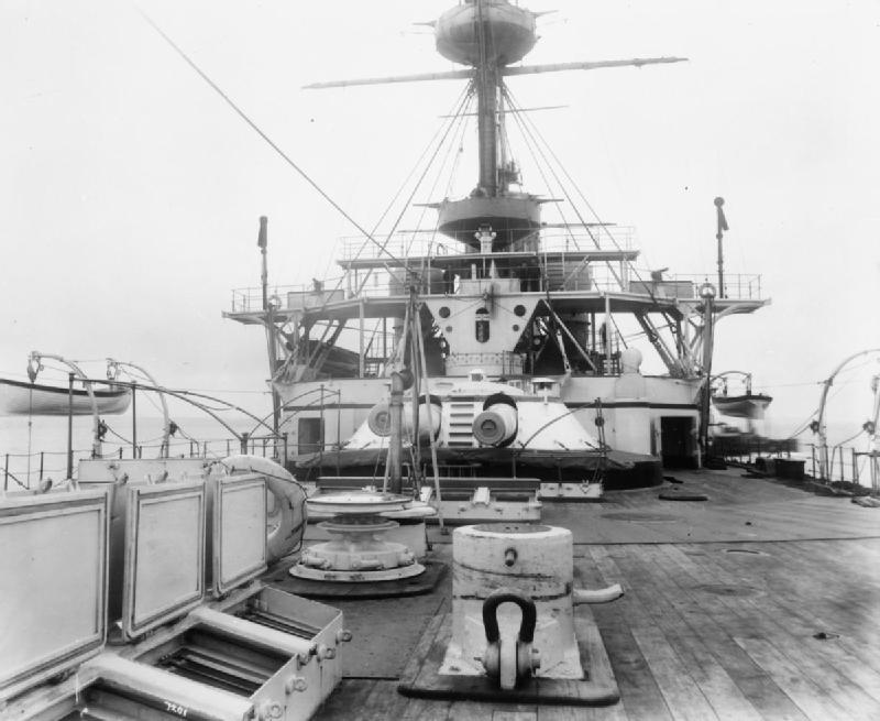 British battleship HMS Hannibal : View of 'Y' turret (12 inch Mk VIII guns) and after superstructure from the quarter-deck.